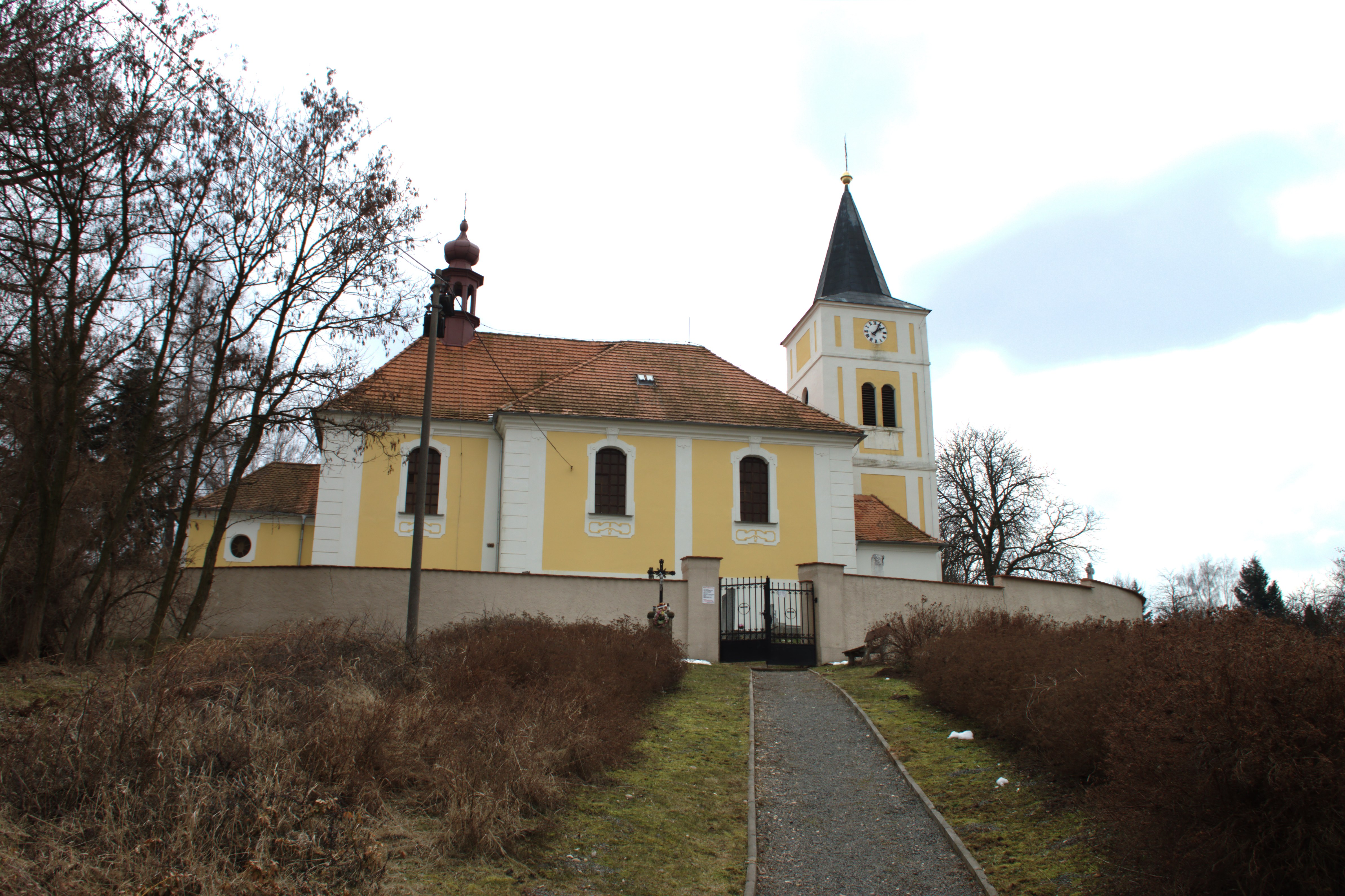 The church in Šanov, Rakovník District